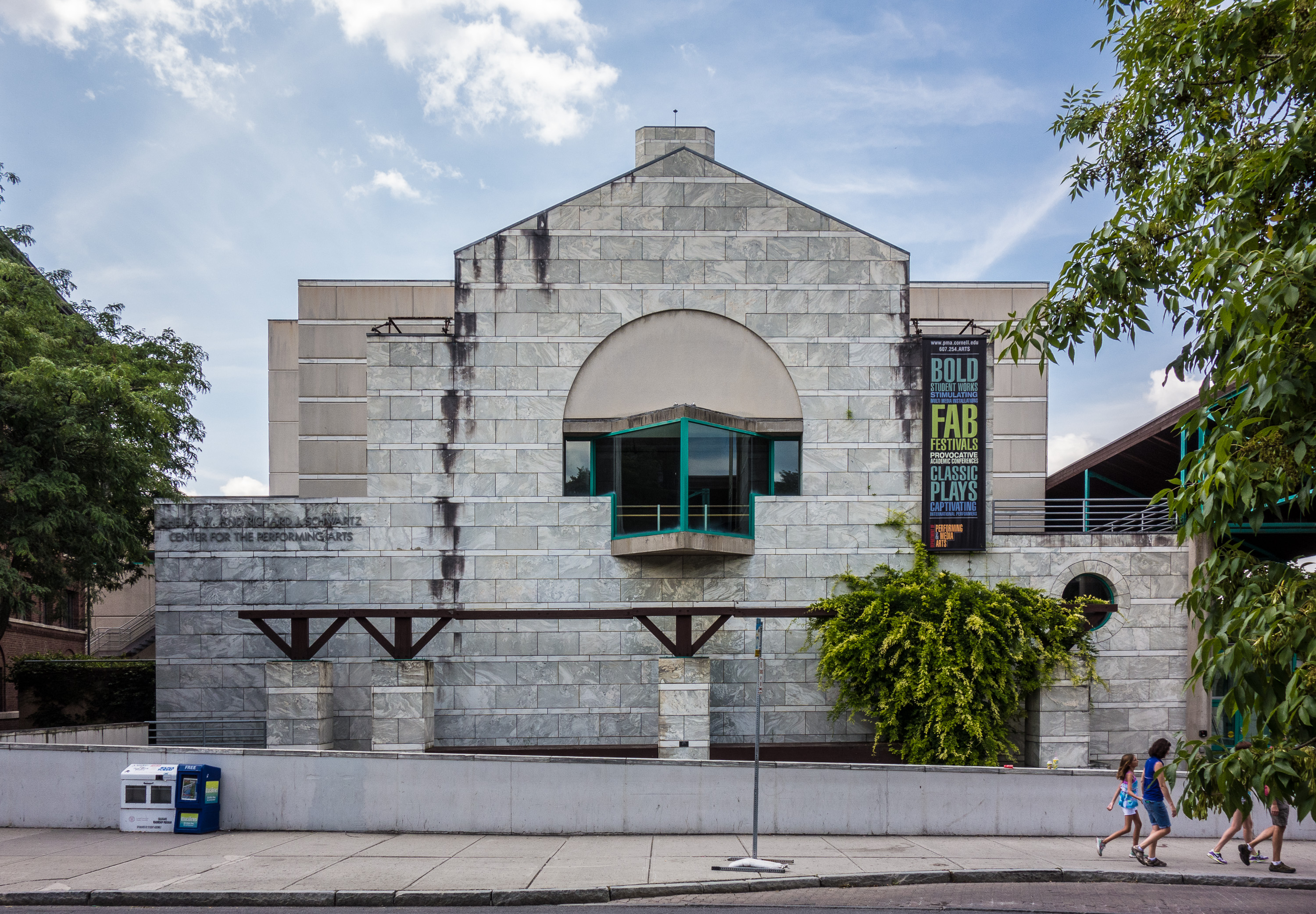 Cornell University's Schwartz Center for Performing Arts, College Avenue side. Designed by James Stirling of Stirling & Wilford Associates of London. Opened 1988.